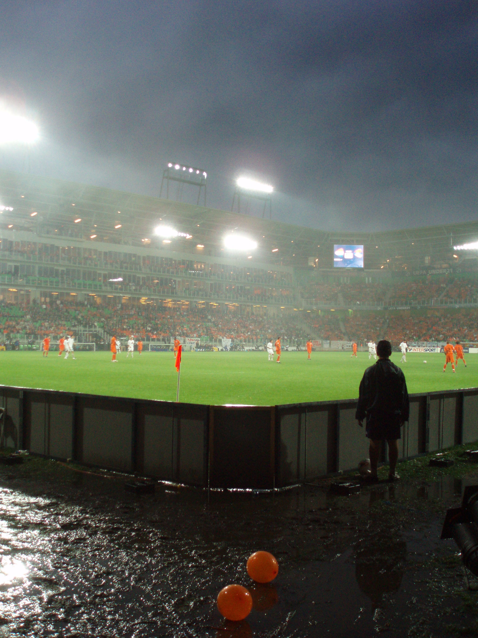 The Netherlands-Serbia, playing the final match of 2007 UEFA European Under-21 Football Championship in Groningen, Euroborg